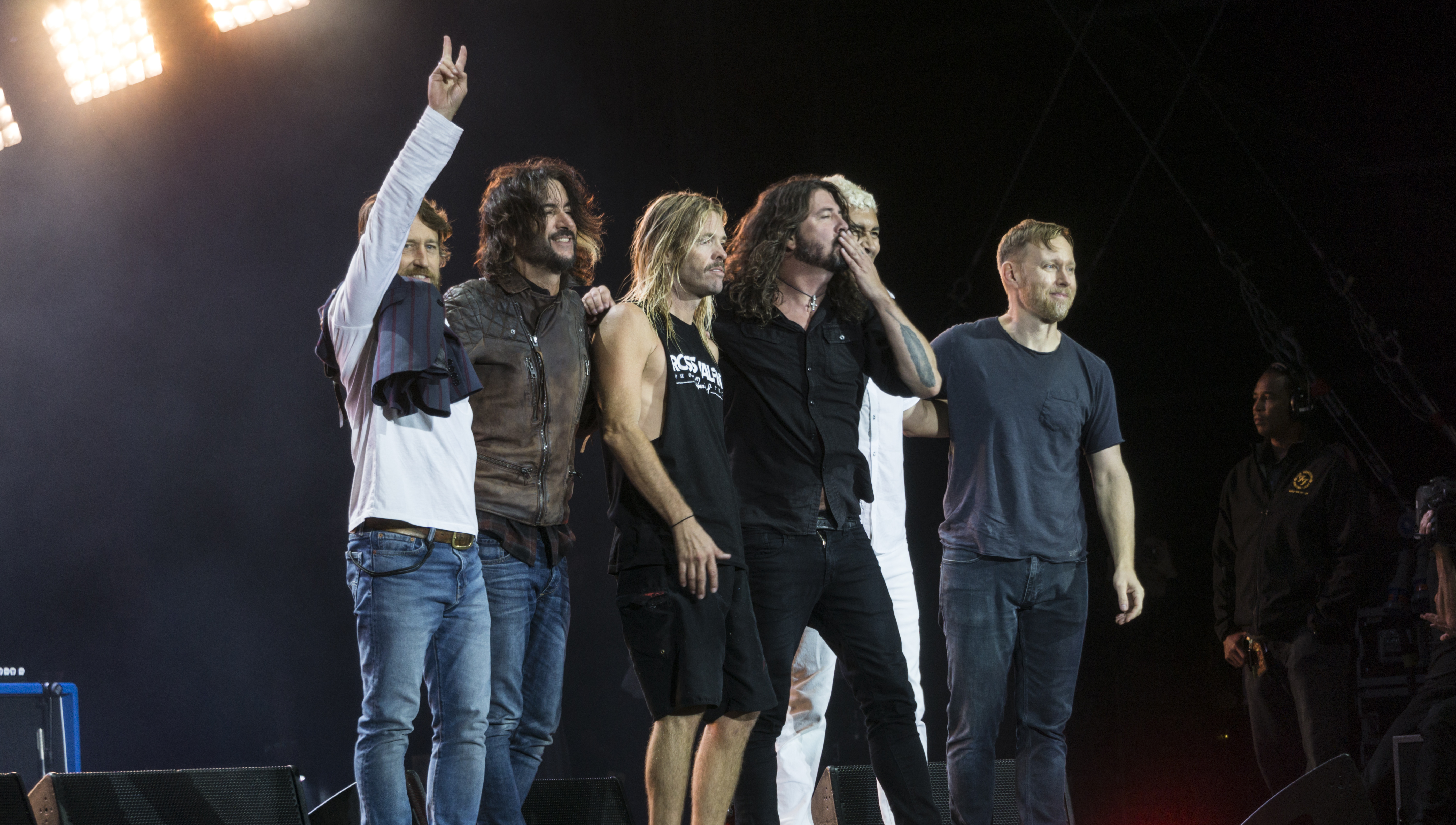 Performance of American rock band Foo Fighters at Lollapalooza Berlin 2017.